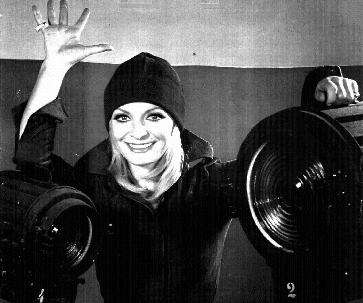 actress Ingrid Schoeller hosting an Italian TV show